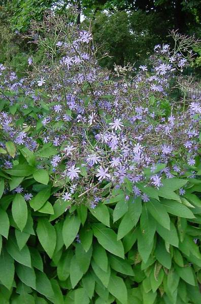 Cicerbita bourgaei